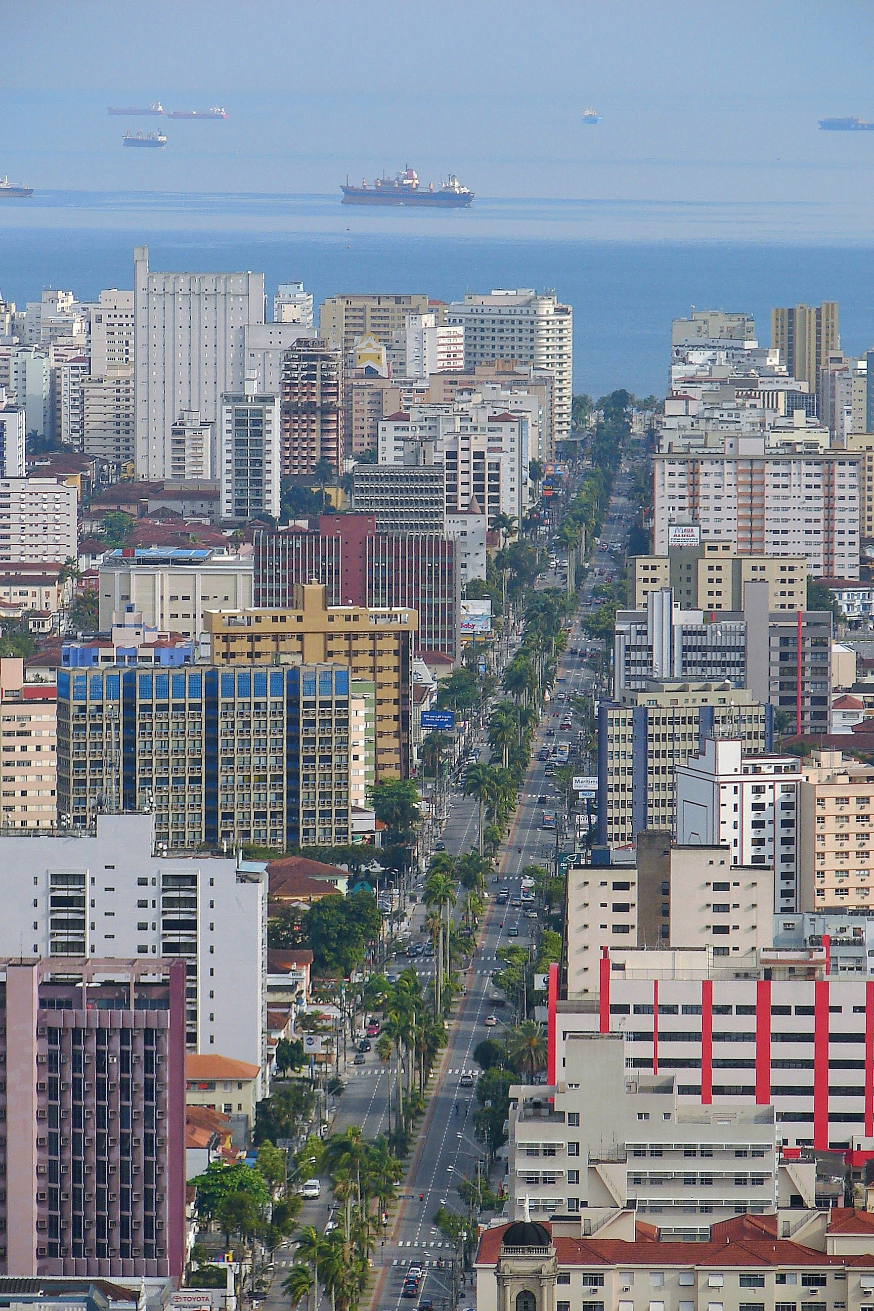 Vista da Avenida Ana Costa, Santos.